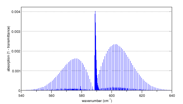 Simulated vibration-rotation spectrum